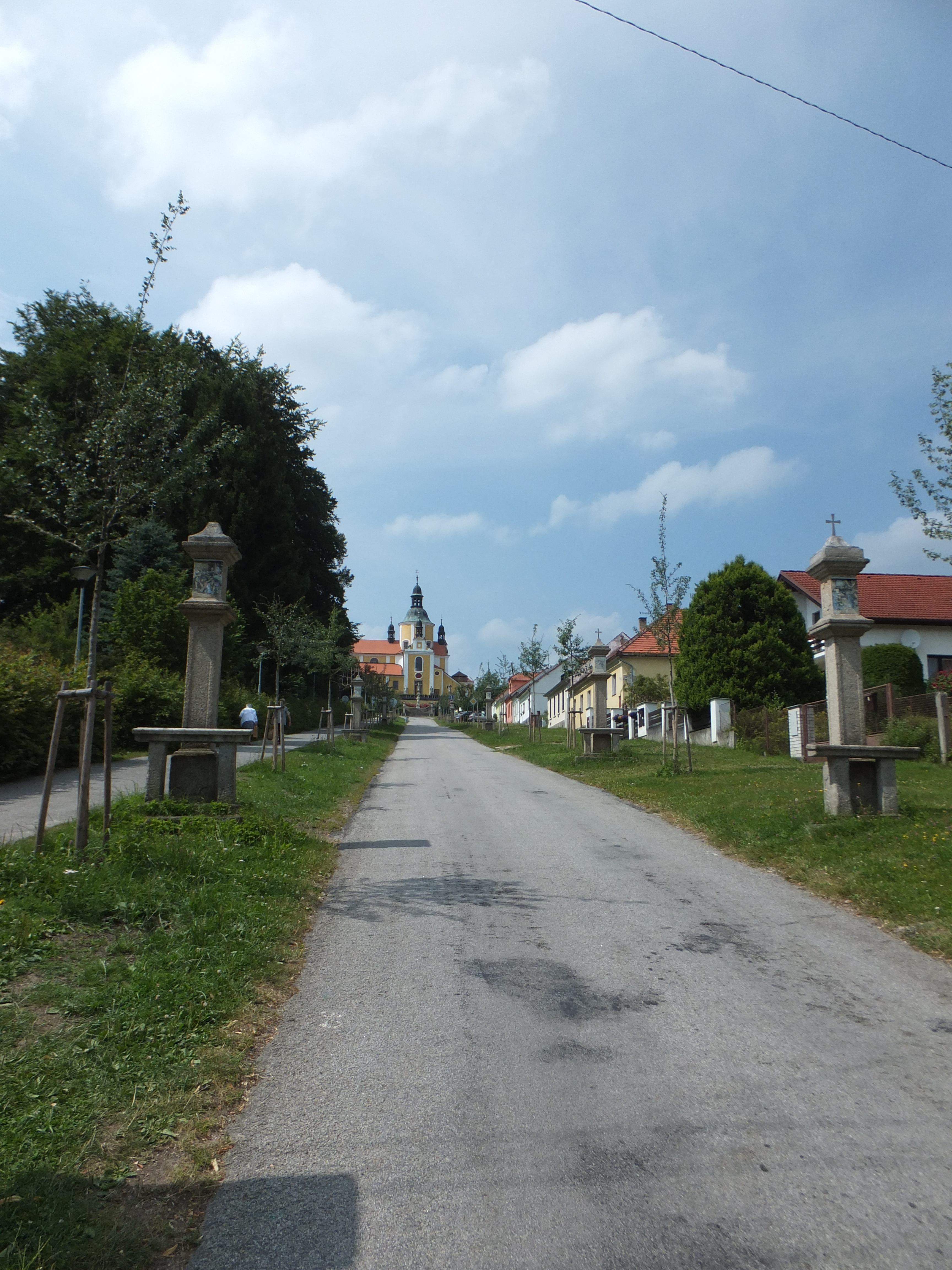 Chlum u Třeboně - the treet "Stations of the Cross"